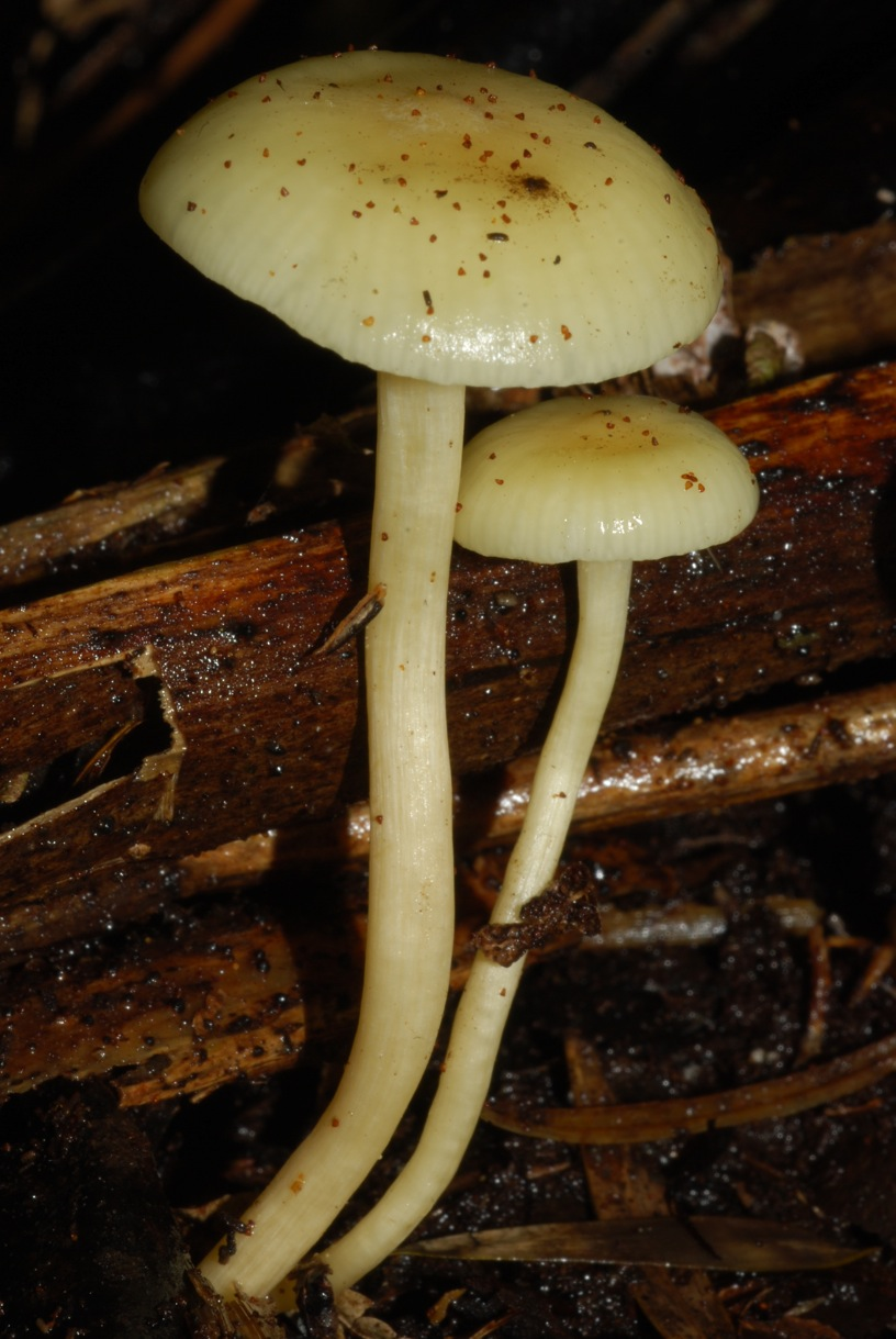 Hygrophorus salmonipes (G. Stev.) Location: Kaipara harbour, Auckland, New Zealand. Notes: On soil under tree ferns in native New Zealand bush, (Cyathea, Kunzea, Cordyline).